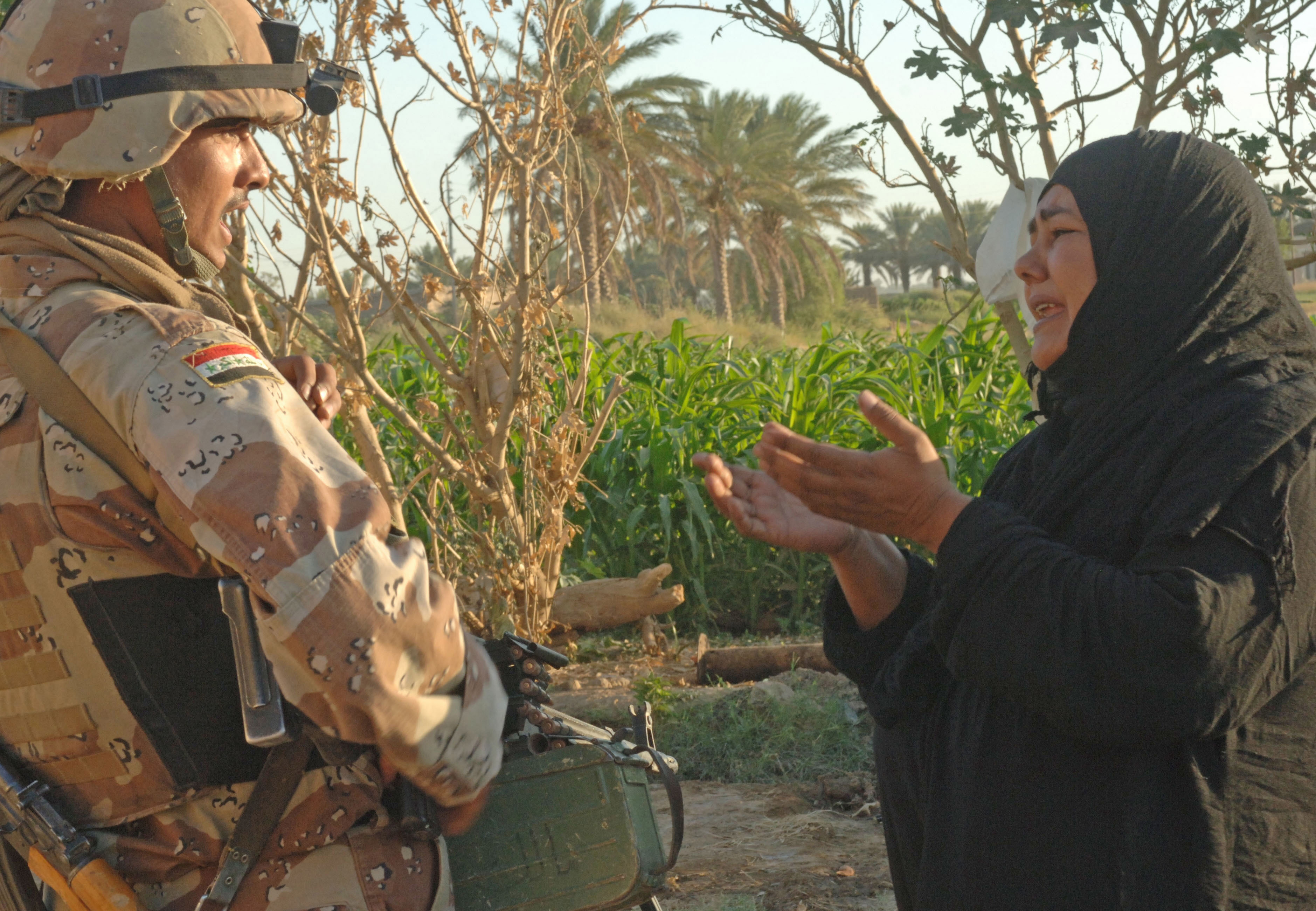 Original caption: A woman pleads to an Iraqi army soldier from 2nd Company, 5th Brigade, 2nd Iraqi Army Division to allow a suspected insurgent free during a raid near Tafaria, Iraq.